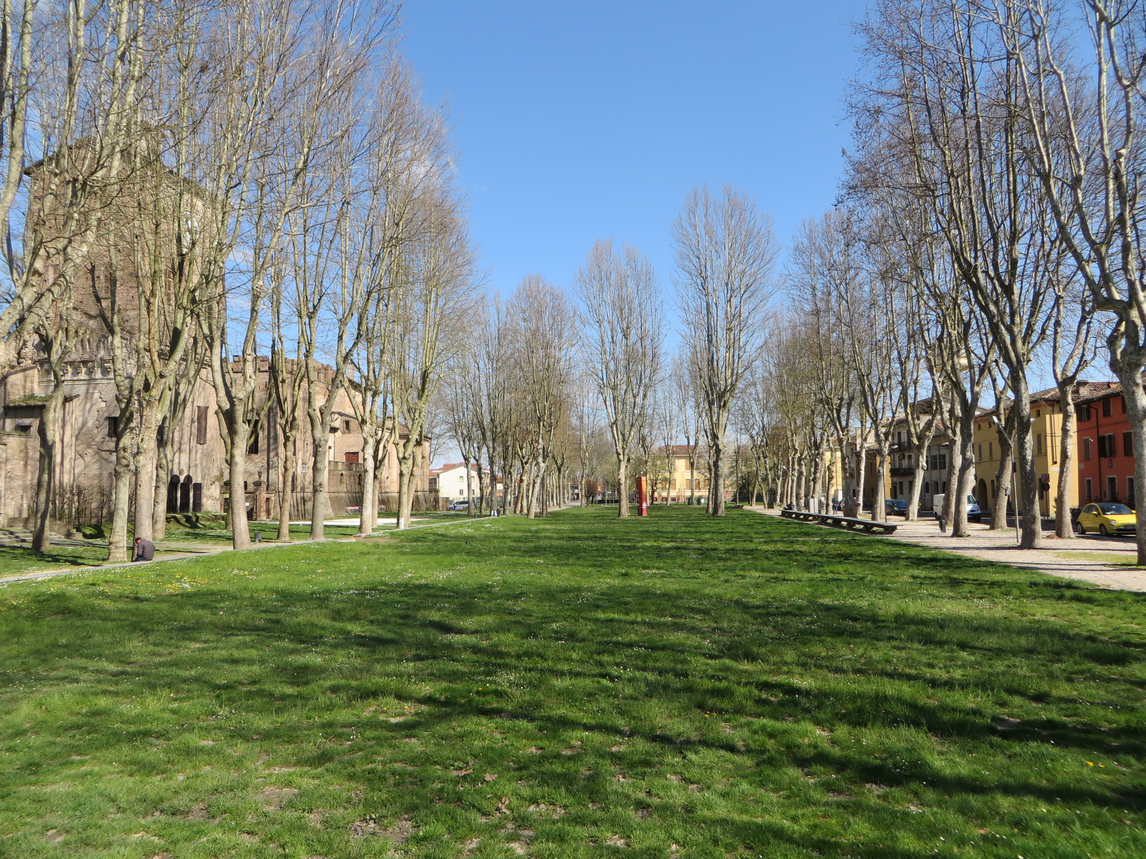 Castle